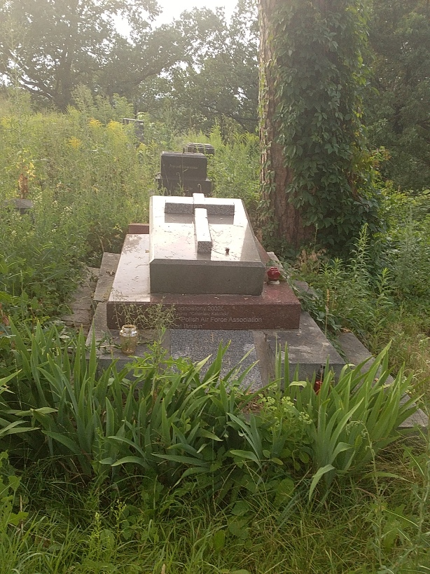 Polish (Catholic) Cemetery in Zhytomyr. Andrzej Fedukowicz